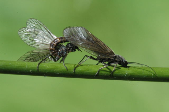 Picture taken in Commanster, Belgian High Ardennes . Species: Sialis lutaria couple